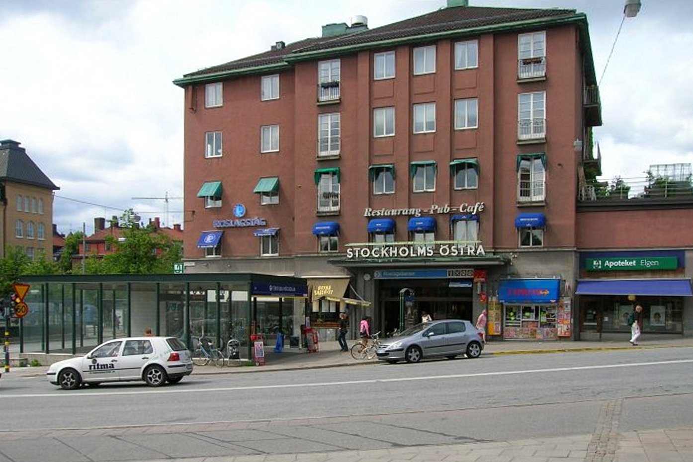 Stockholms östra station, Stockholm, Sweden